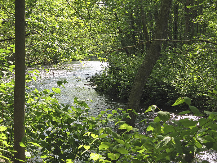 Picture of the Whippany River, taken by me (cholmes75) on the grounds of the Frelinghuysen Arboretum.